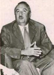 Italian writer Vinicio Marinucci during a panel discussion in Rome, Italy